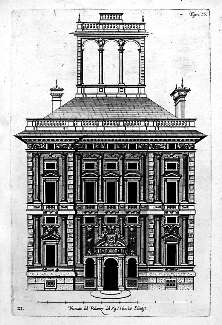 Peter Paul Rubens : Palazzi di Genova, Antwerpen, 1622